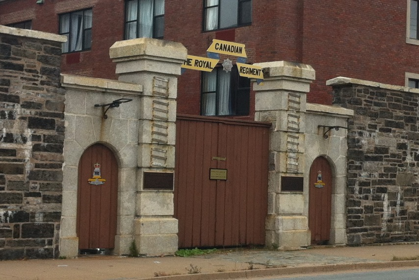 Wellington Gate CFB Halifax Nova Scotia